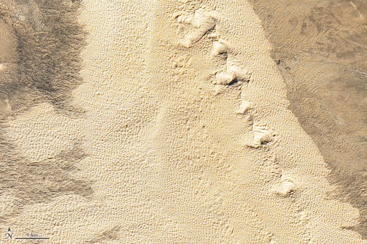 See File:Samalayuca Dune field 2018.jpg, of which this is a detail